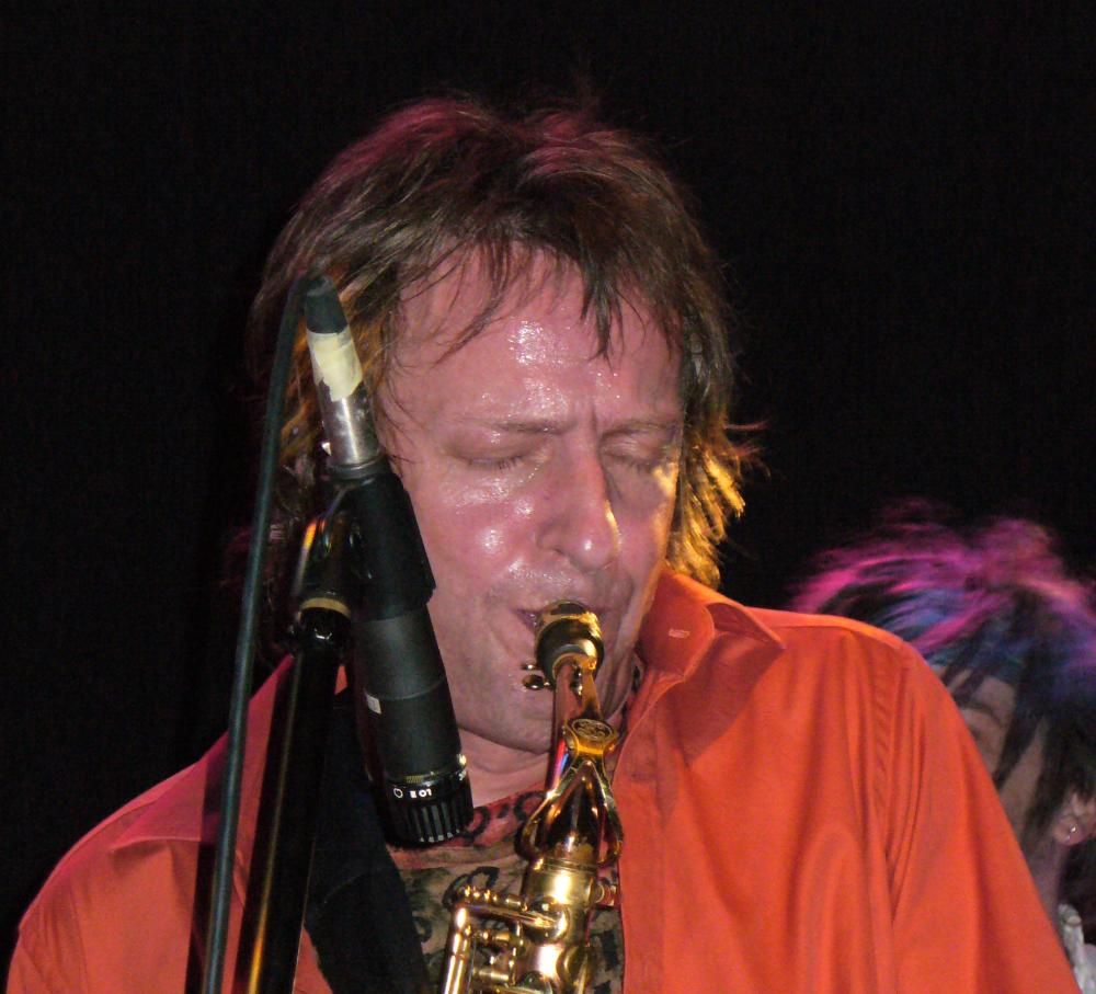 Mateusz Pospieszalski - saxophonist and vocalist of band Voo Voopl Mateusz Pospieszalski - saksofonista i wokalista zespołu Voo Voo